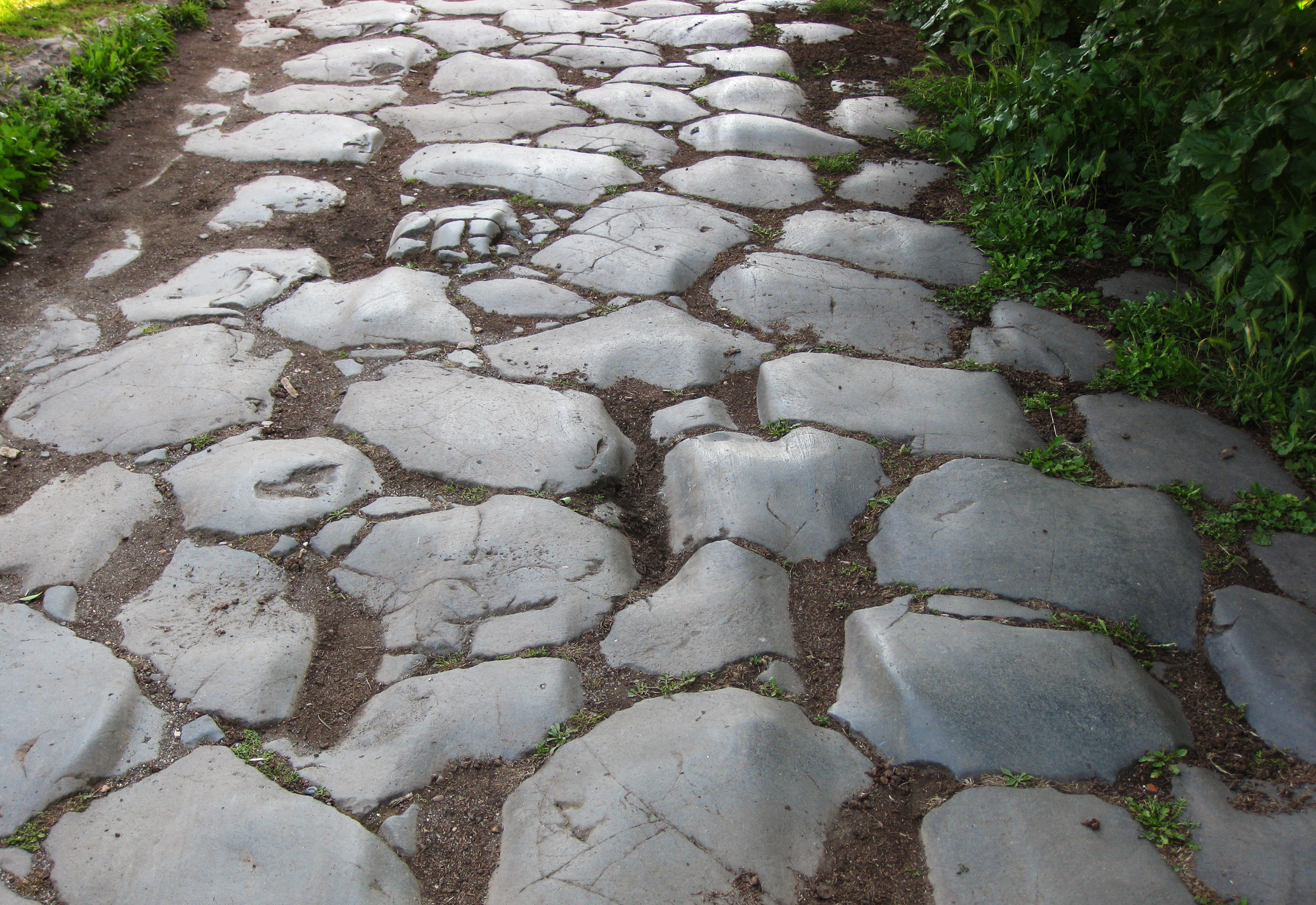 Closeup of stones in old Roman road, Ostia Antica, Italy. Traces of the two ruts of carriage wheels can be seen.